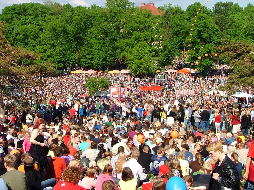 Kaivopuisto park in Helsinki, Finland, during a free concert, on June 12, 2005.